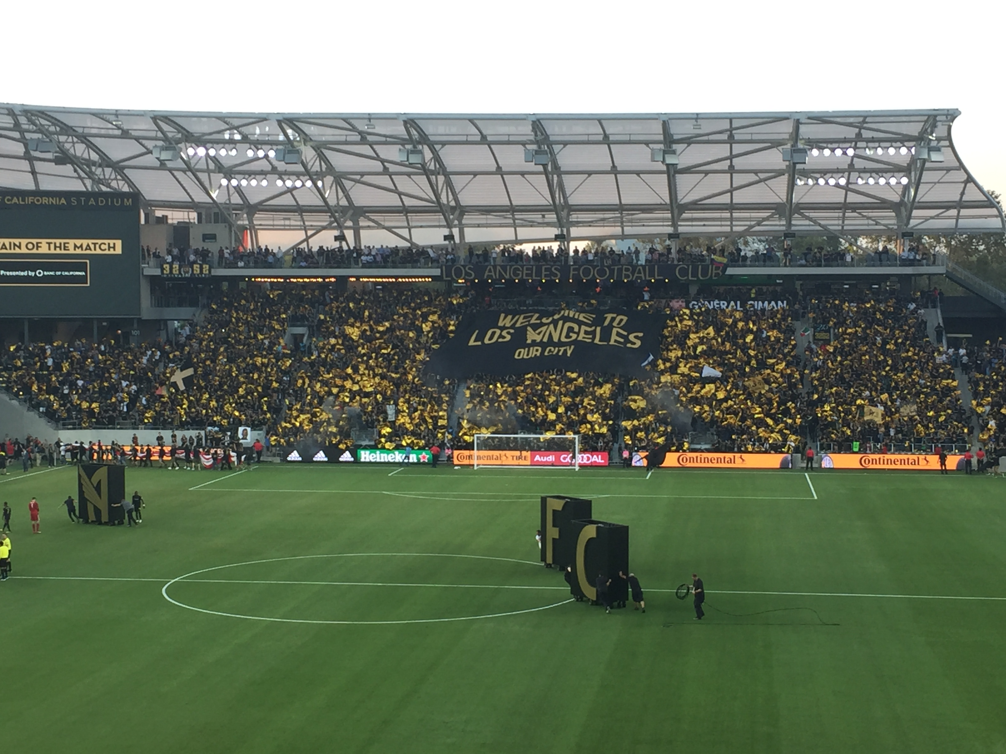 The 3252 Supporter’s section unveil a tifo before El Tráfico game against the LA Galaxy.